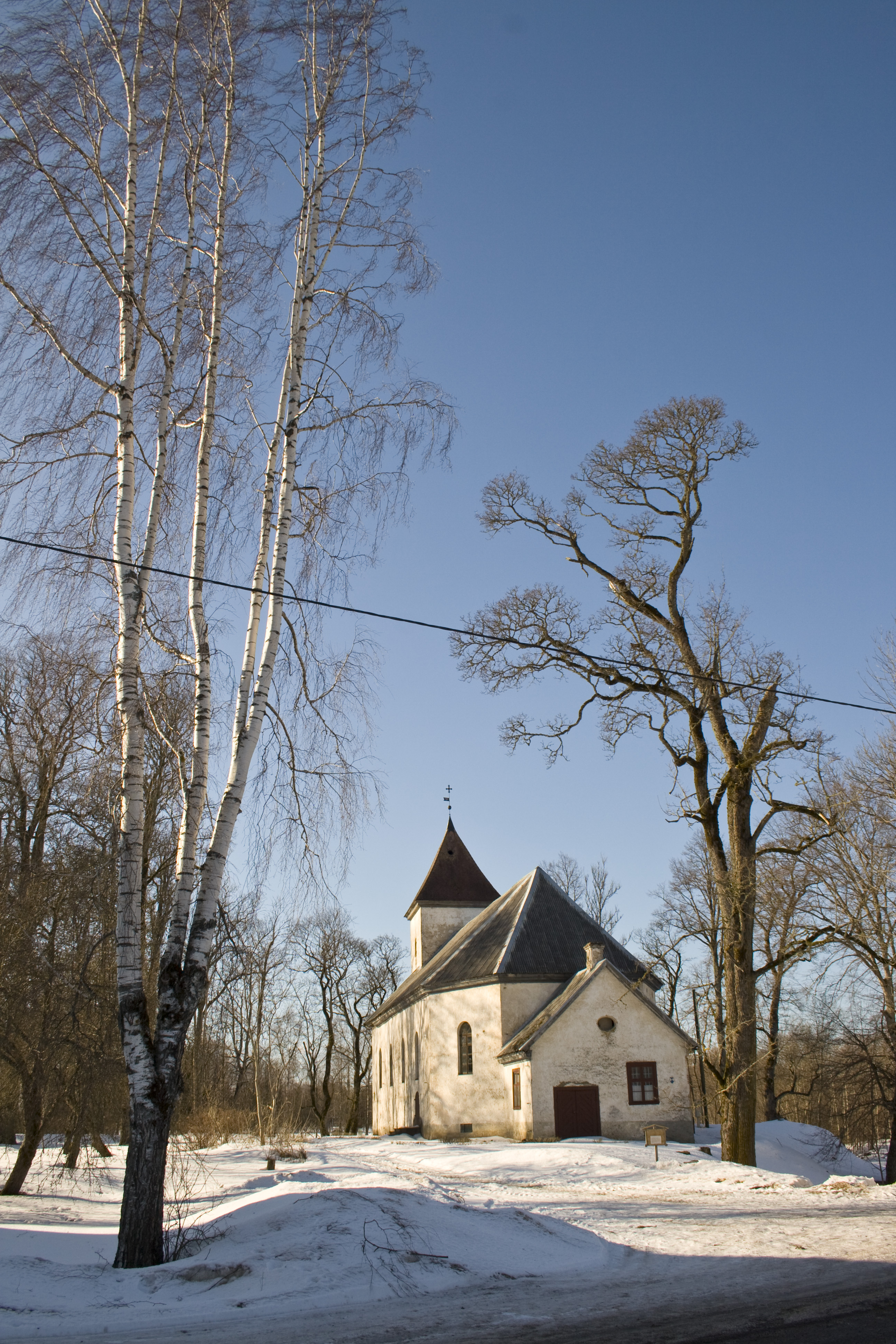 Cīrava Evangelical Lutheran ChurchLatviešu: Cīravas evaņģēliski luteriskā baznīca